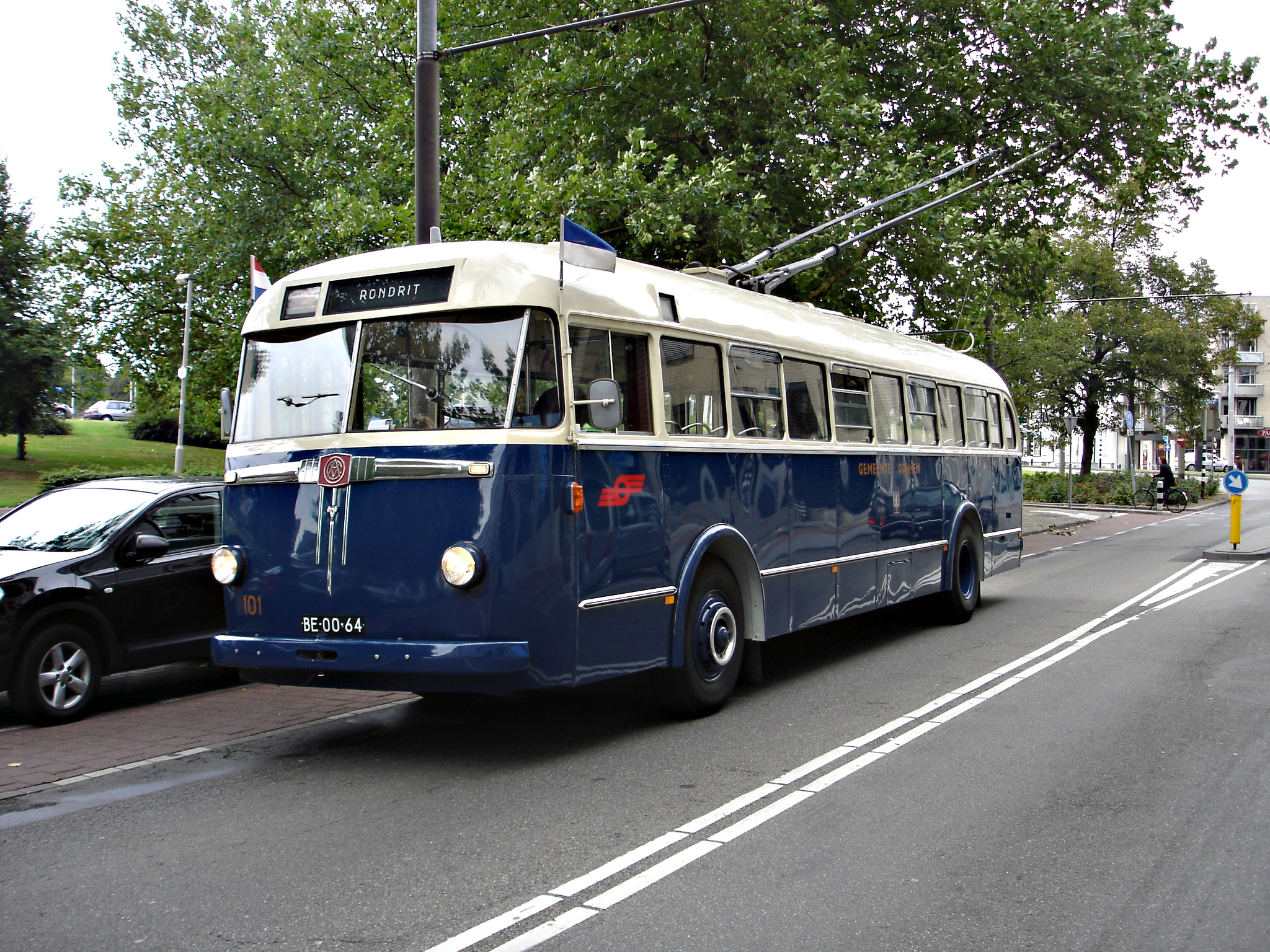 Arnhem trolleybus 101 is a Verheul-bodied BUT trolleybus built in 1949. It has been preserved in operating condition.